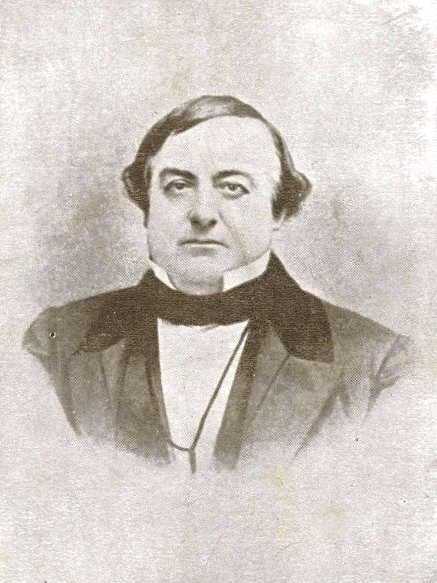 Juan Bautista Alvarado (1809-1882), two-time governor of Alta California (before California was a U.S. state).